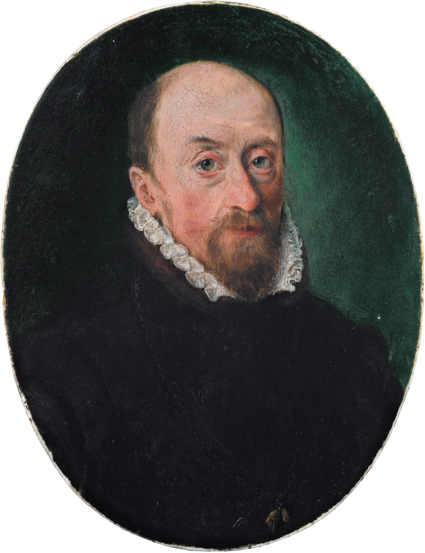 Maximilian II of Austria (1527-1576) oil on ivory 12,7 x 9,7 cm inscribed verso: Di mano / da Sofonisba / Anguisciola Cre / Monese / Dama Della Regina Isabella / di spagna moglie…/di filippo… circa 1580